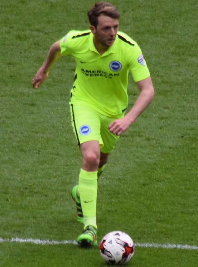 Dale Stephens against Charlton